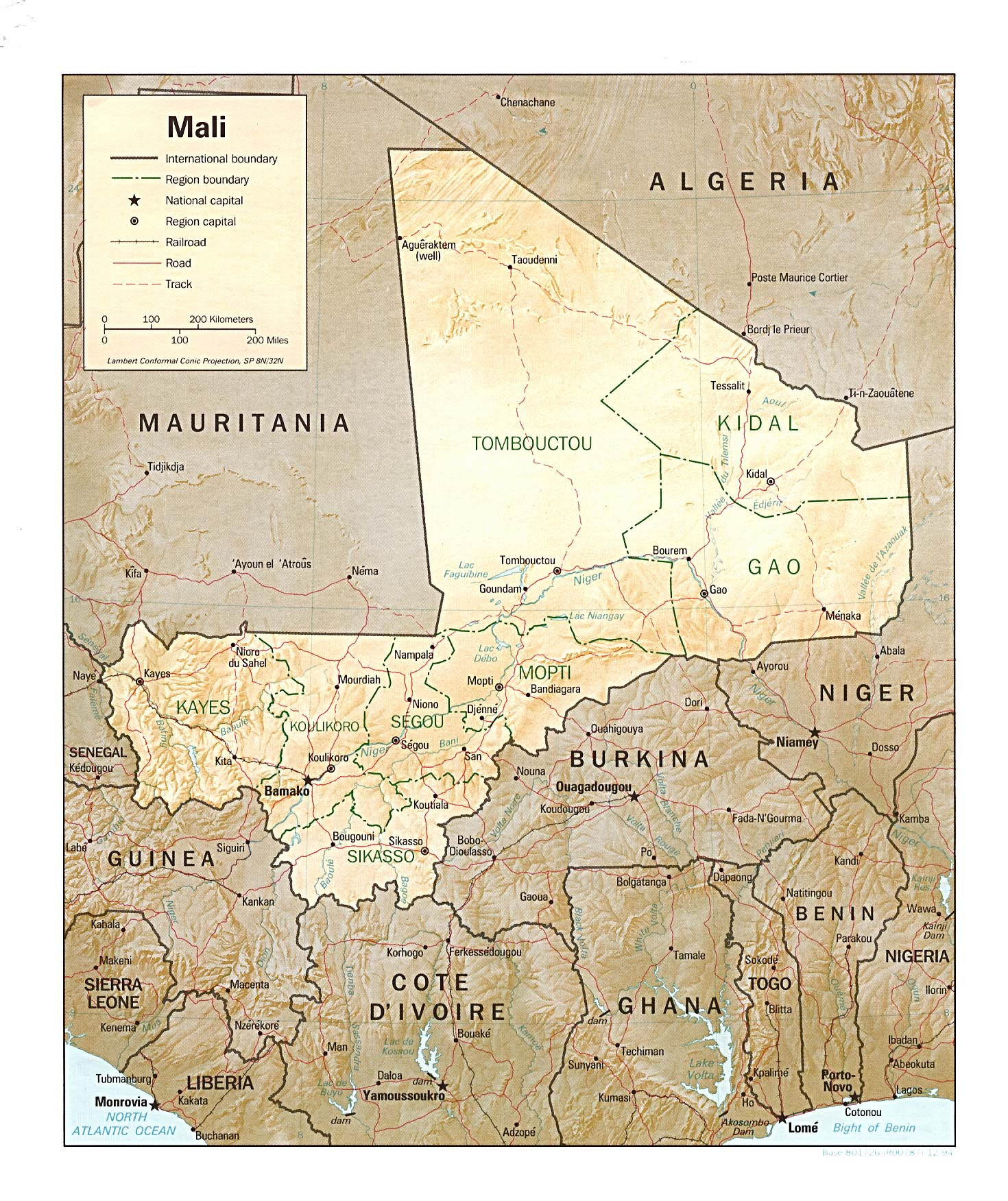 Shaded relief map of Mali.